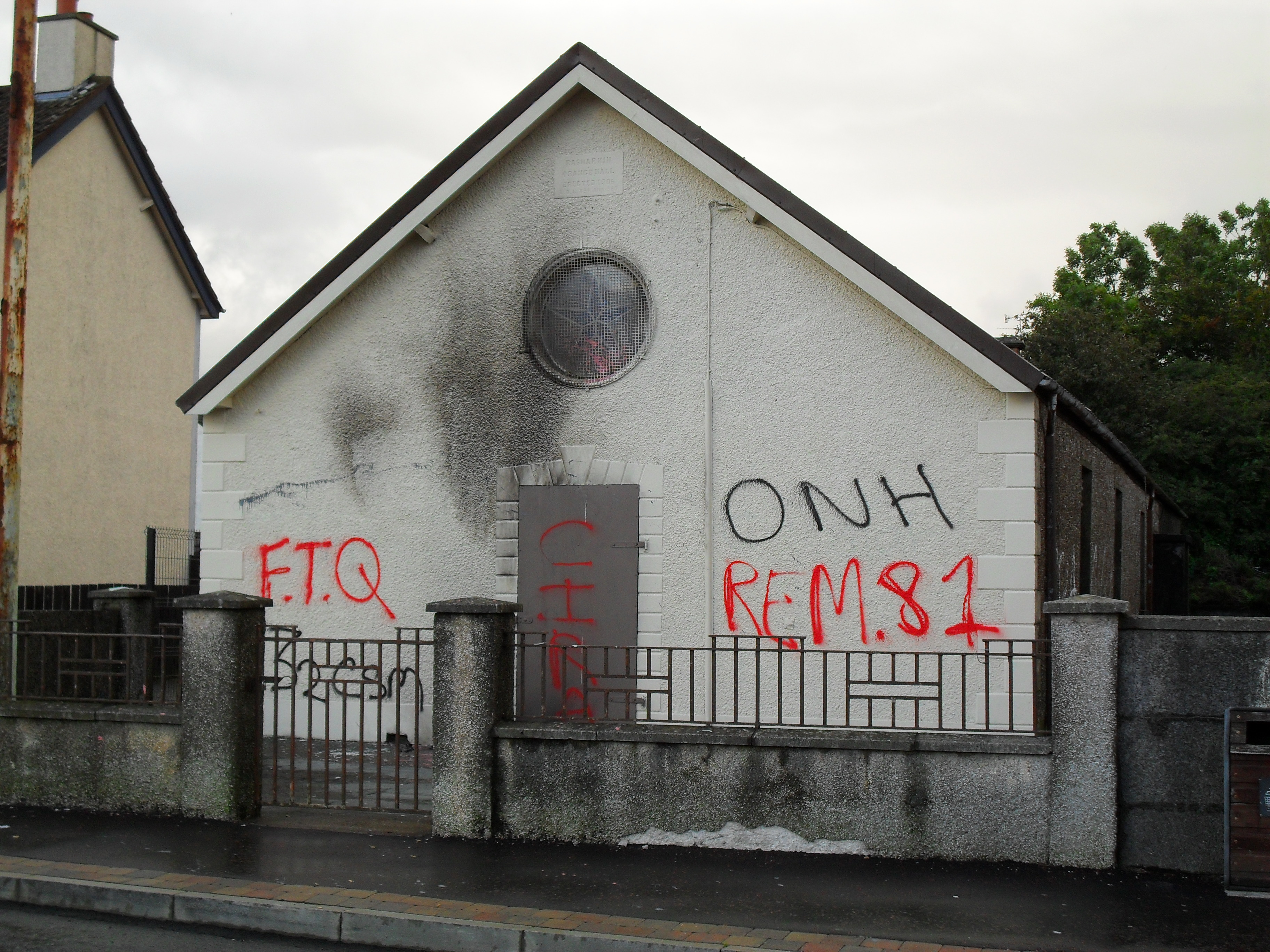 Rasharkin Orange Hall - after attack